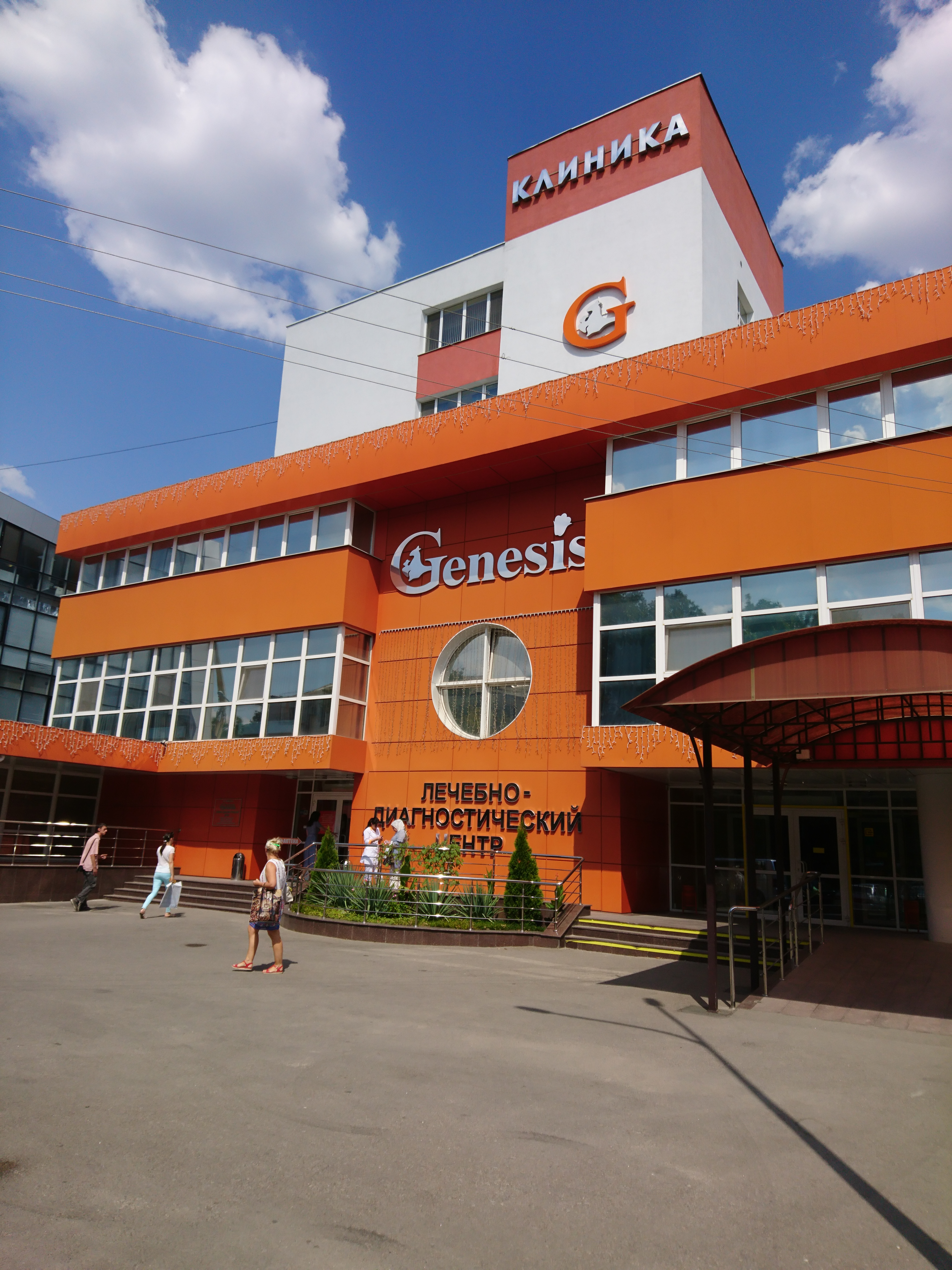 Genesis Clinical in Simferopol